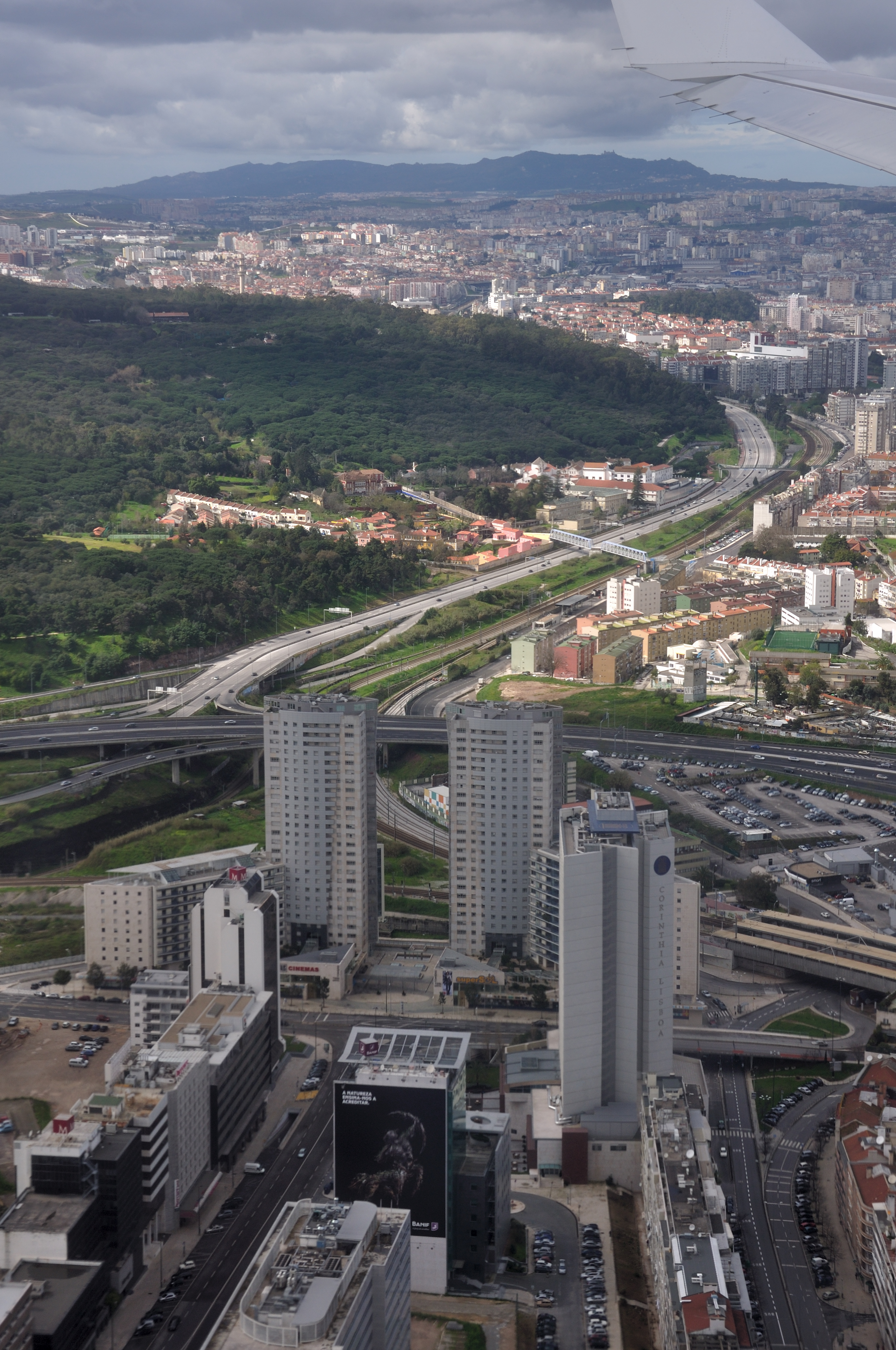 Portugal, Approach into Lisbon